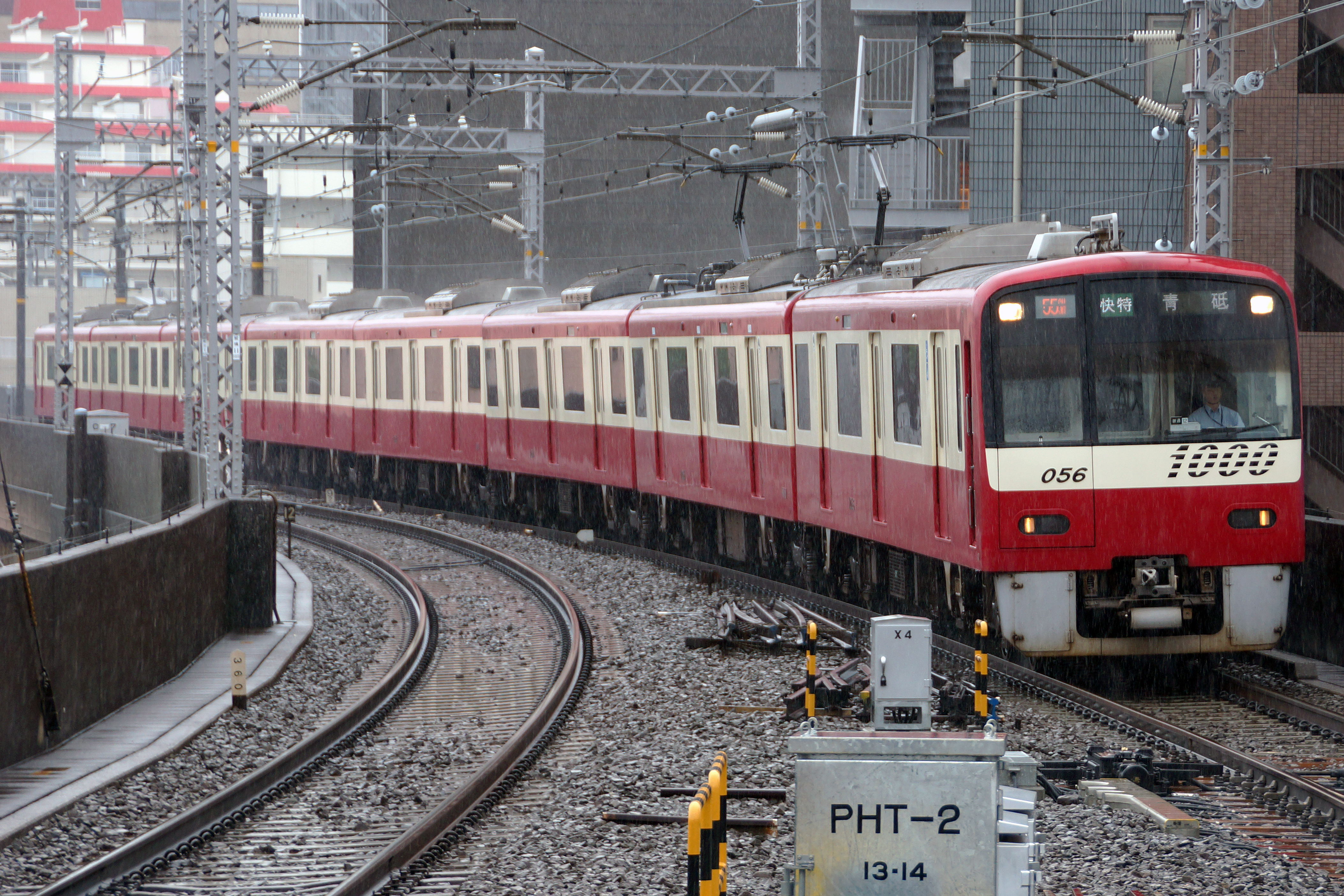 Keikyu N1000 series EMU set 1049 approaching Samezu Station on a up limited express service to Aoto